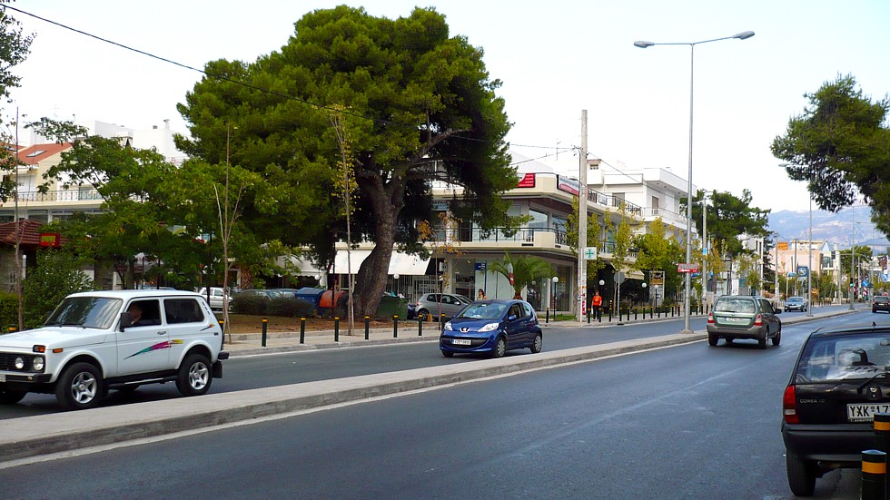 The above picture depicts the central Pentelis Avenue at Vrilissia.